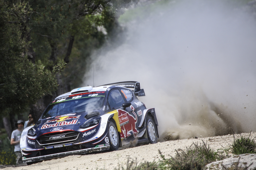 Stage of Vieira do Minho